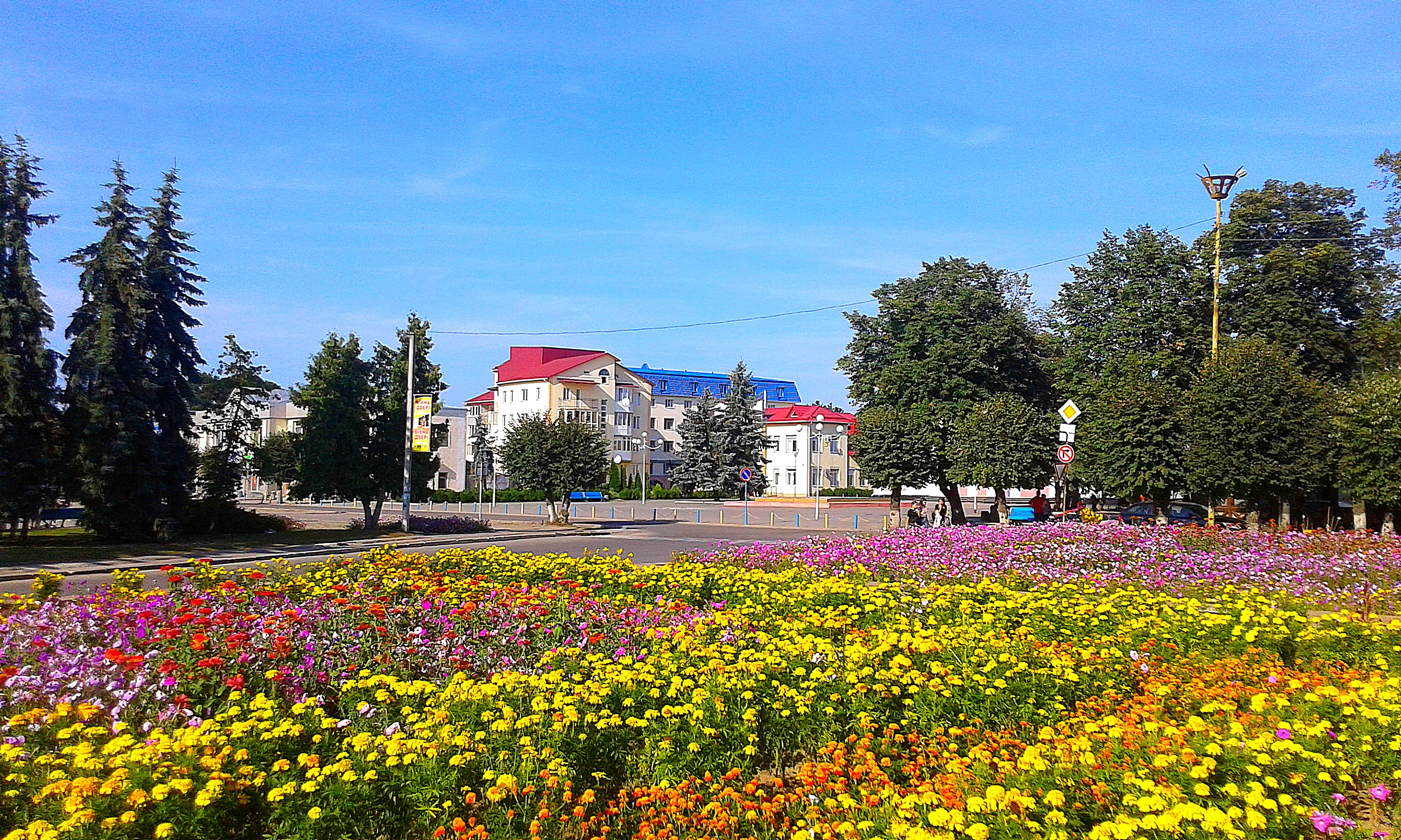 CENTRAL DISTRICT IN CITY OF BAR REGION OF VINNYTSIA STATE OF UKRAINE PHOTOGRAPH BY VIKTOR O LEDENYOV 20190825